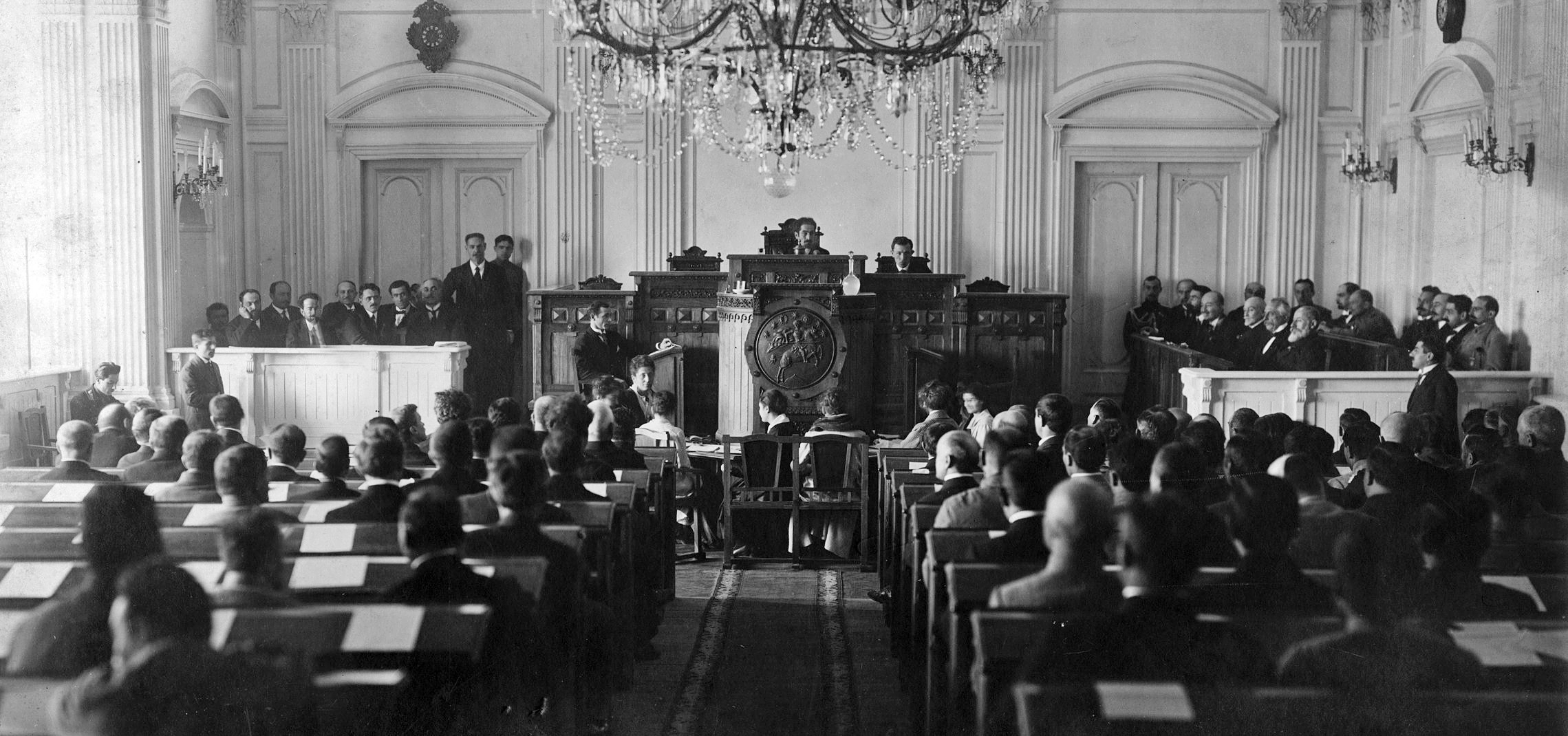 The session of founding meeting of Georgia,Tiflis, 1918.